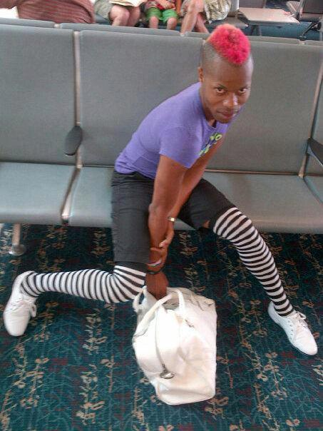 Keith Ramsay, JFK airport, April 2012